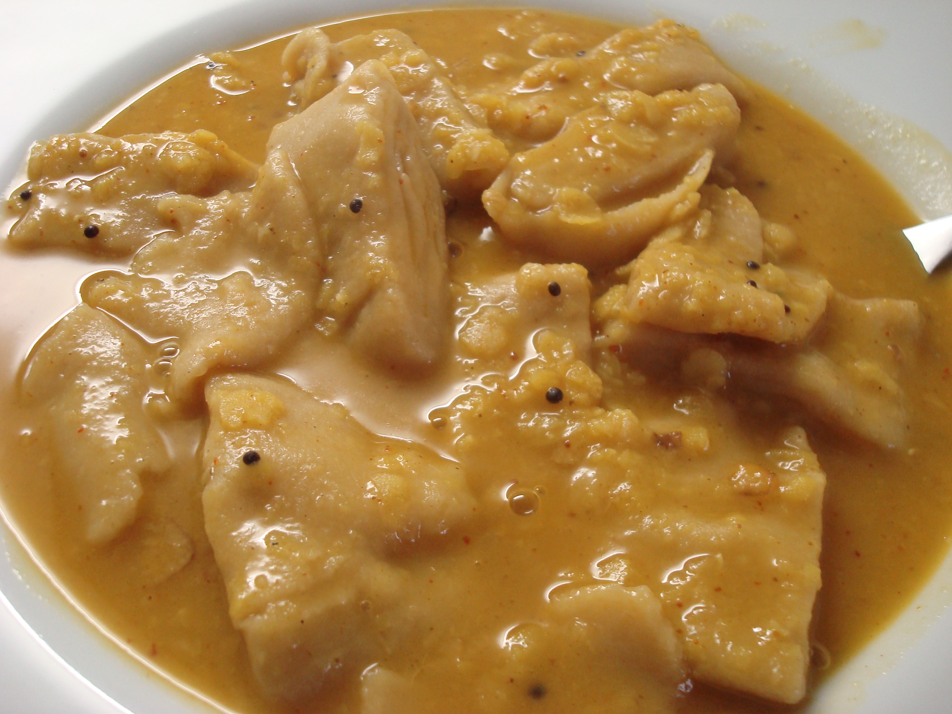 Dalchaklya is a Maharashtrain whole-meal dish